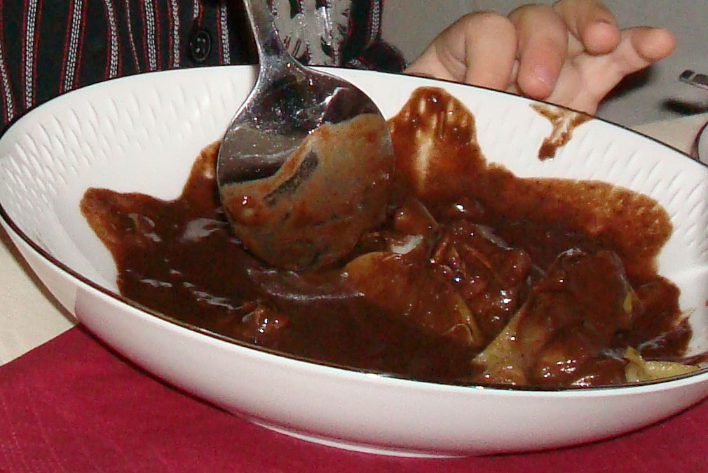 Svartsoppa, a traditional Swedish or Scanian blood dish.